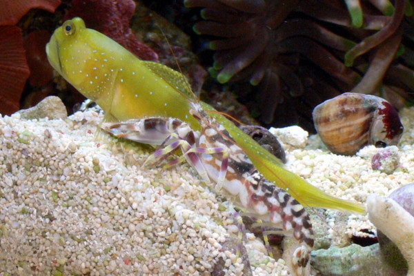 Cryptocentrus cinctus and Alpheus bellulus